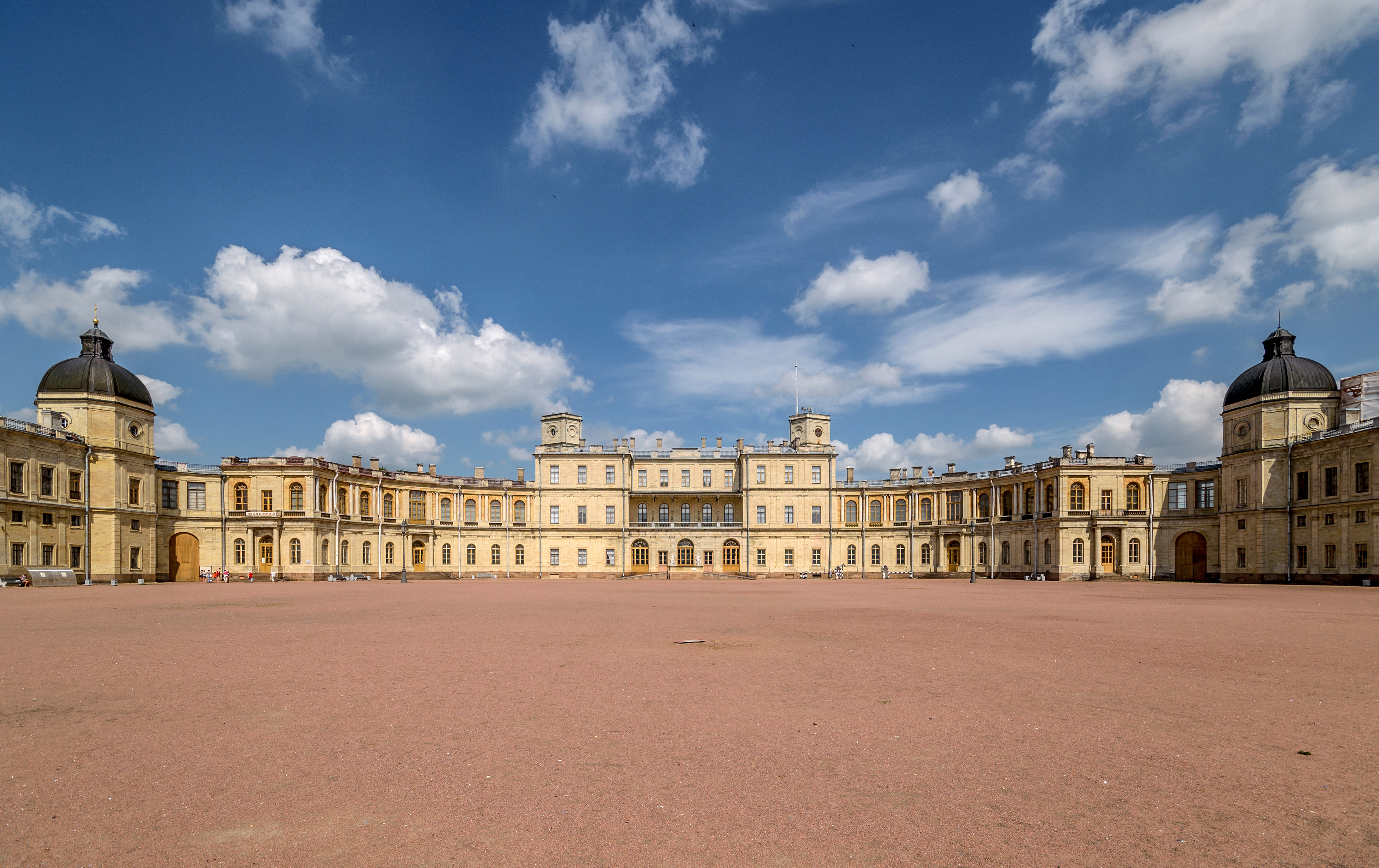 Gatchina palace, Southern facade.Gatchina town, Leningrad oblast